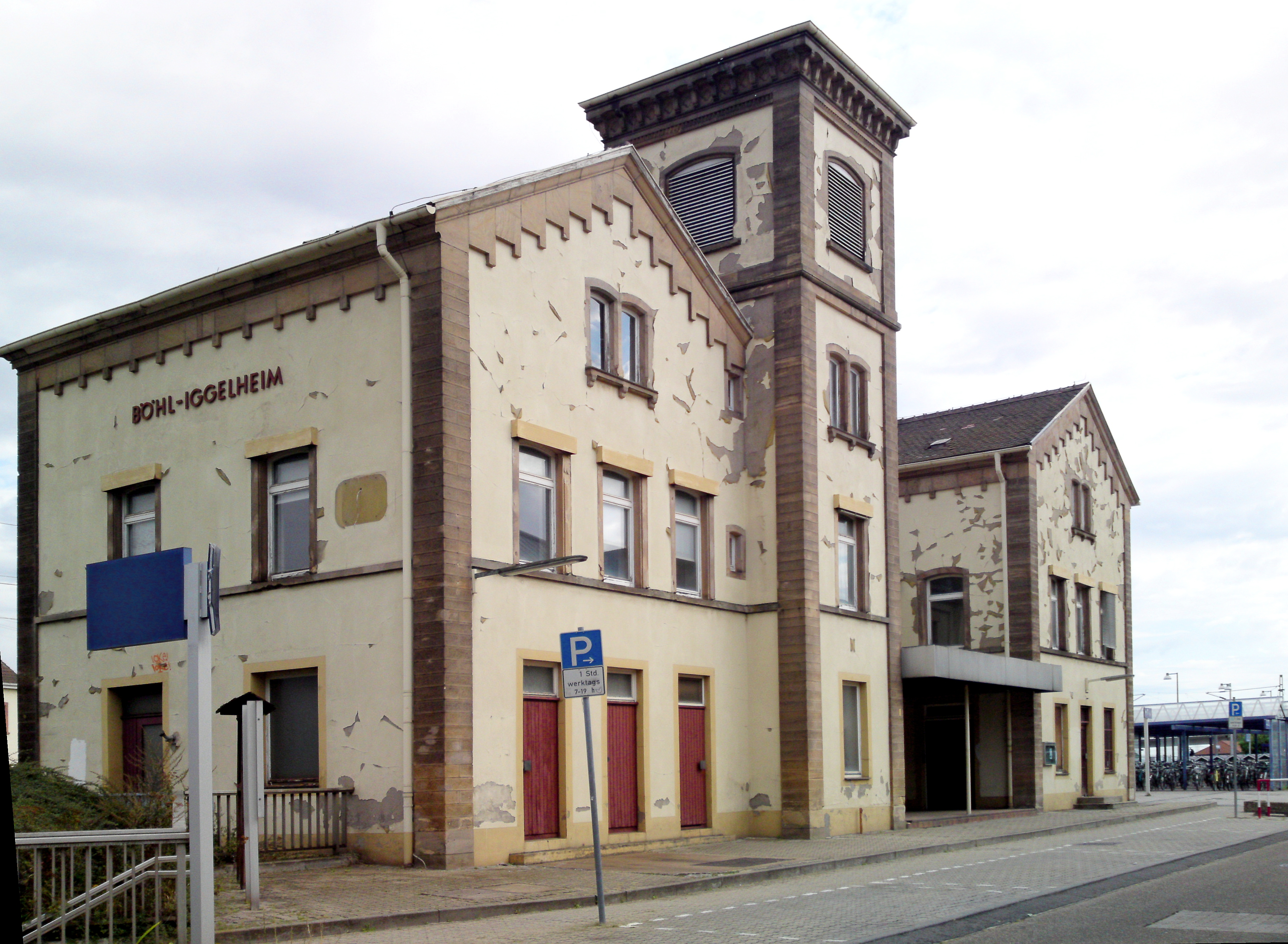 Train station in Boehl-Iggelheim.